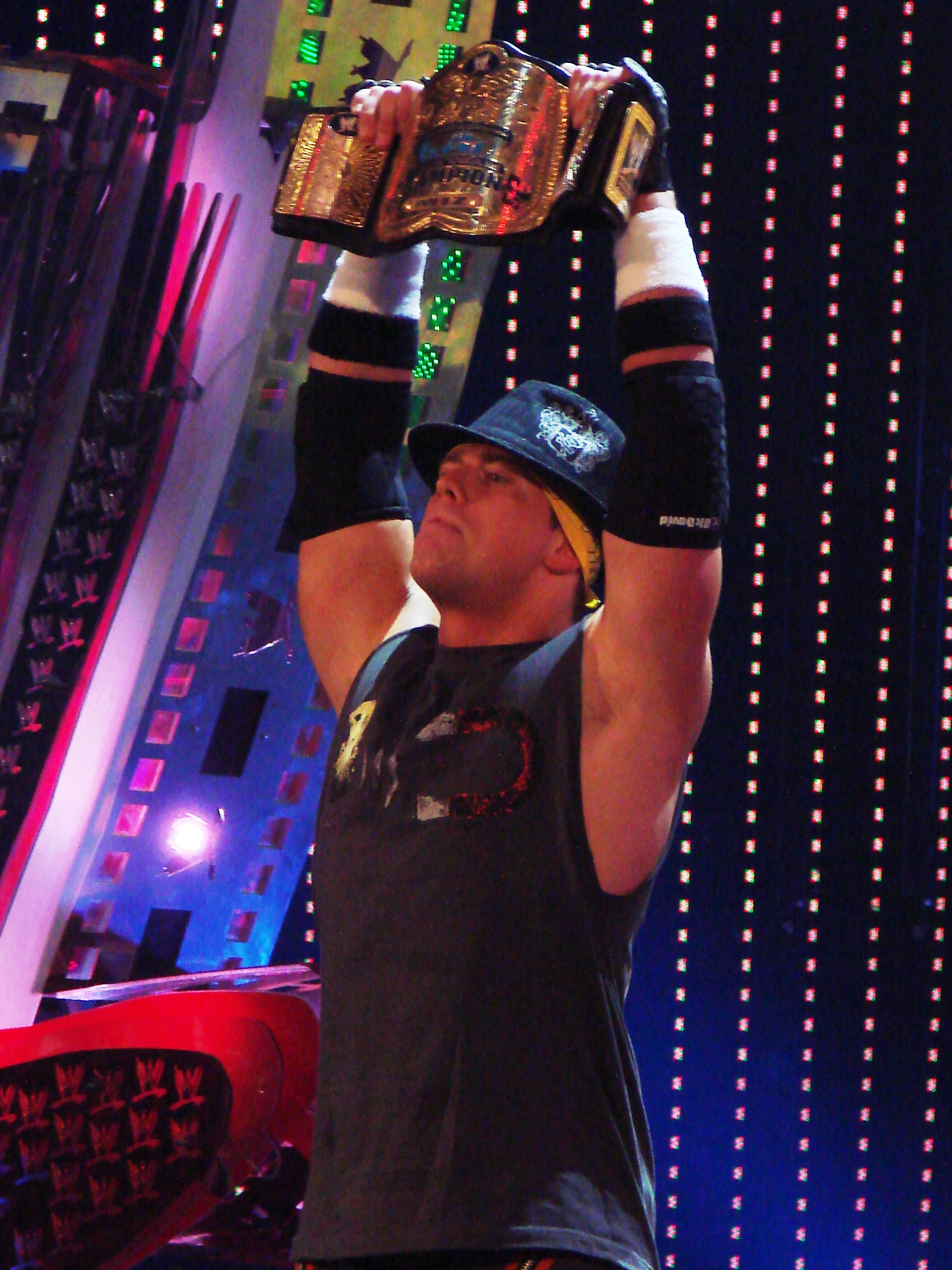 The Miz on WWE SmackDown. Allstate Arena, Rosemont IL